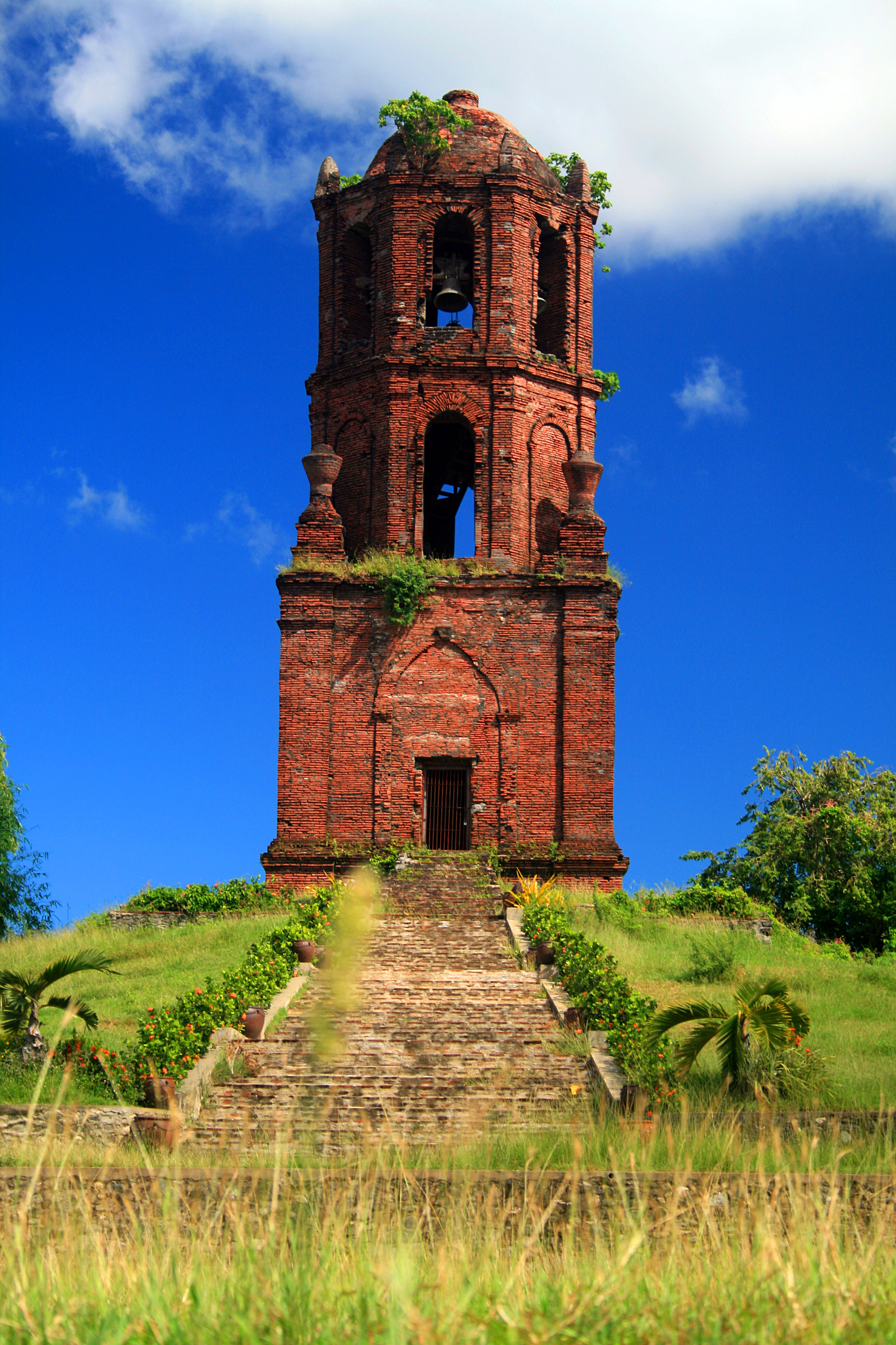 Bell tower in Vigan, Ilocos Sur